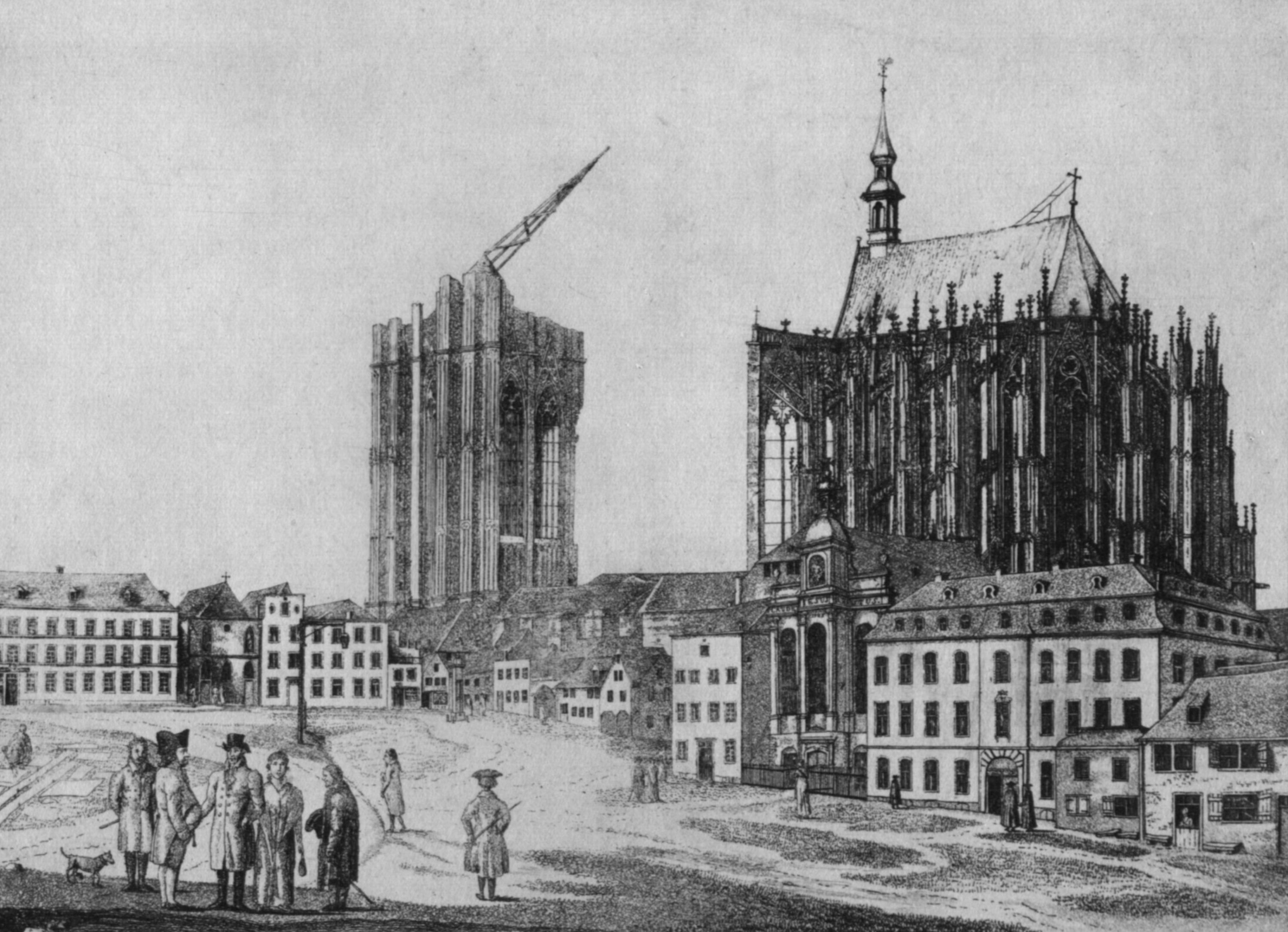 Domhof 1806, drawn and etched by Johann Paul Josef Ritter. The crossing tower was removed in 1812 for lack of stability.